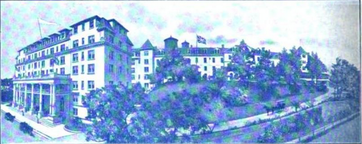 Hamilton Hotel, Bermuda